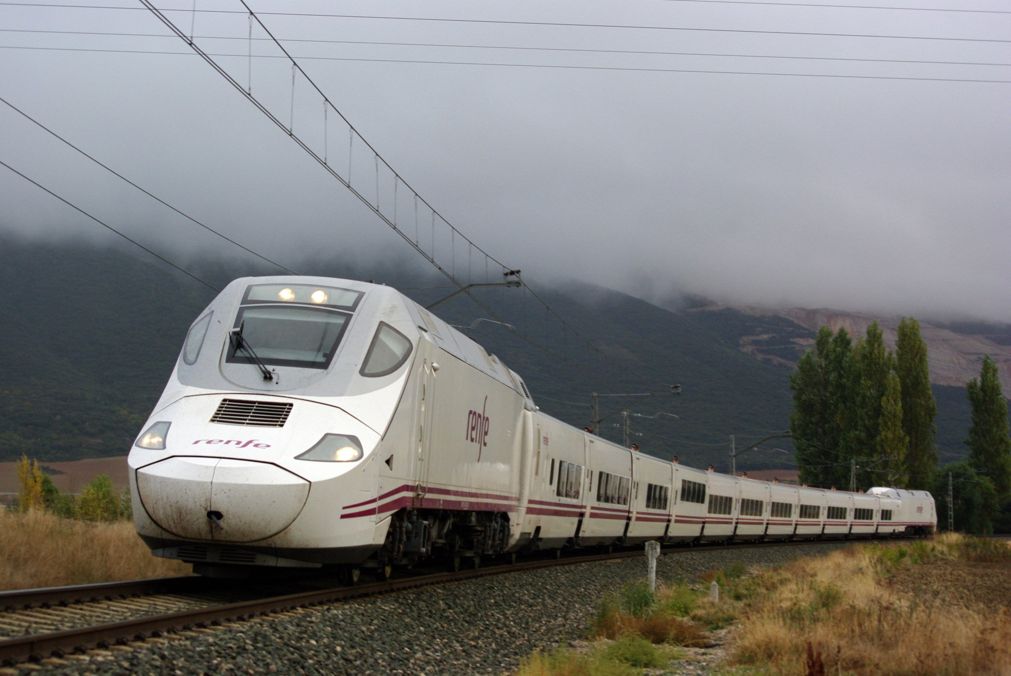 Alvia train (class 130) in Navarra, Spain